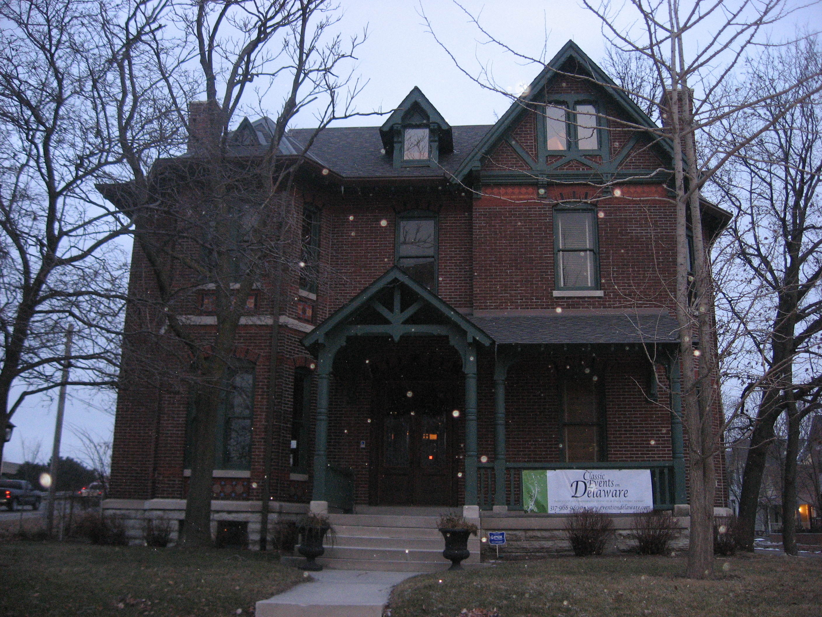 House at 1101 North Delaware Street in Indianapolis, Indiana, United States. This house is part of a historic district, the St. Joseph Neighborhood Historic District, that is listed on the National Register of Historic Places.